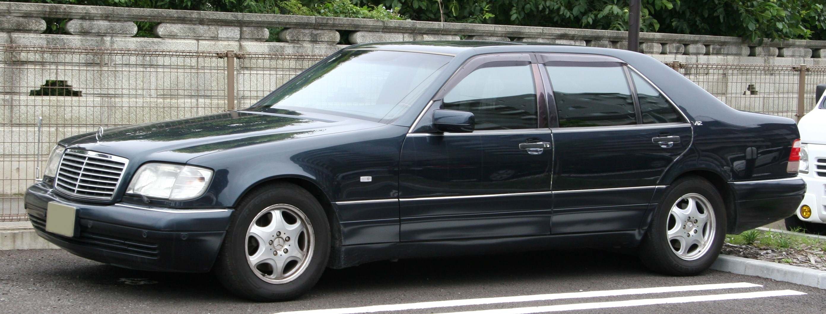 Mercedes-Benz S-Class